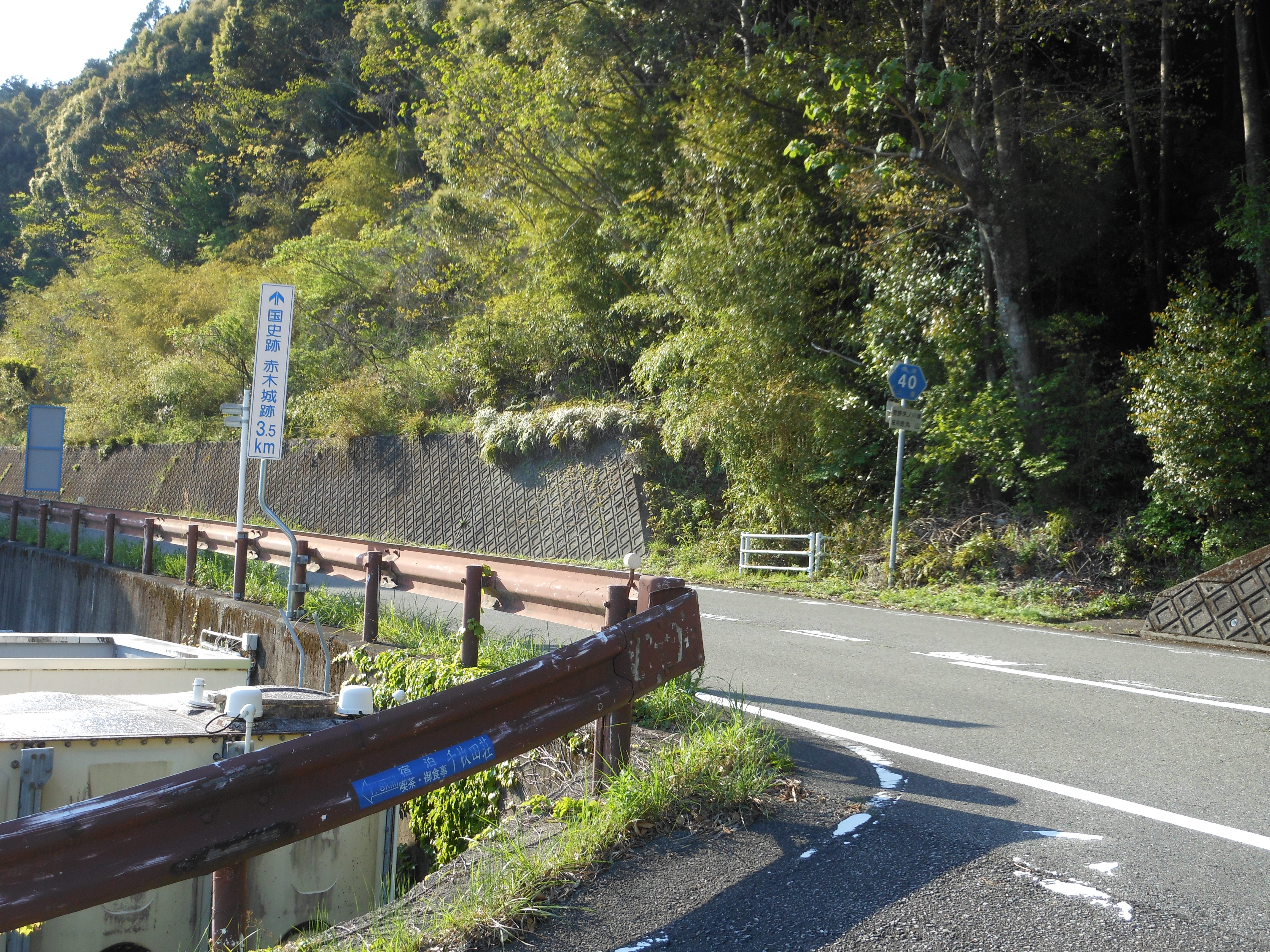 This is a landscape of Mie prefectural road No.40 Kumano-Yanokawa line in Kiwacho-Maruyama, Kumano, Mie, Japan.